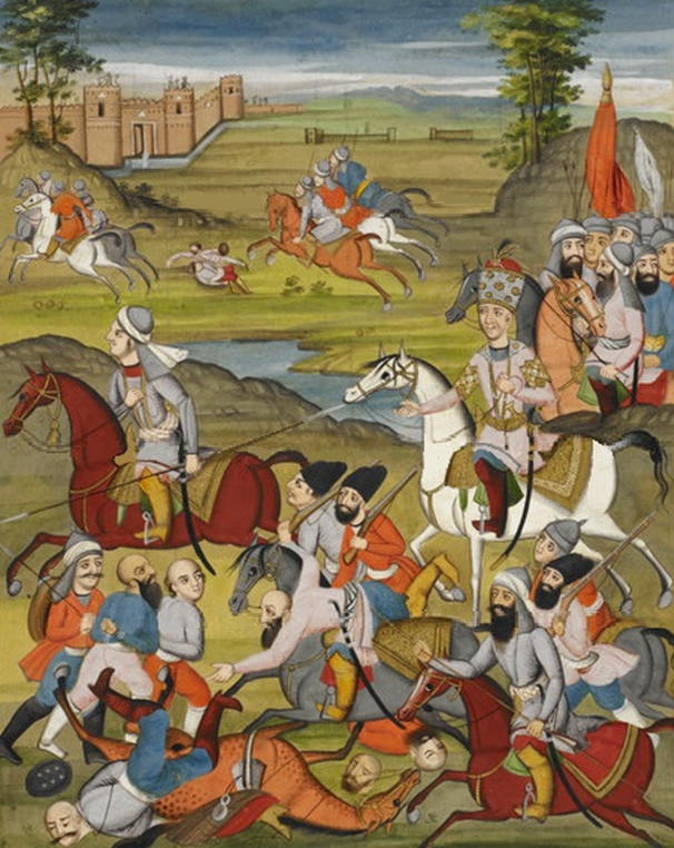 battle between Lotf Ali Khan Zand and Agha Mohammad Khan